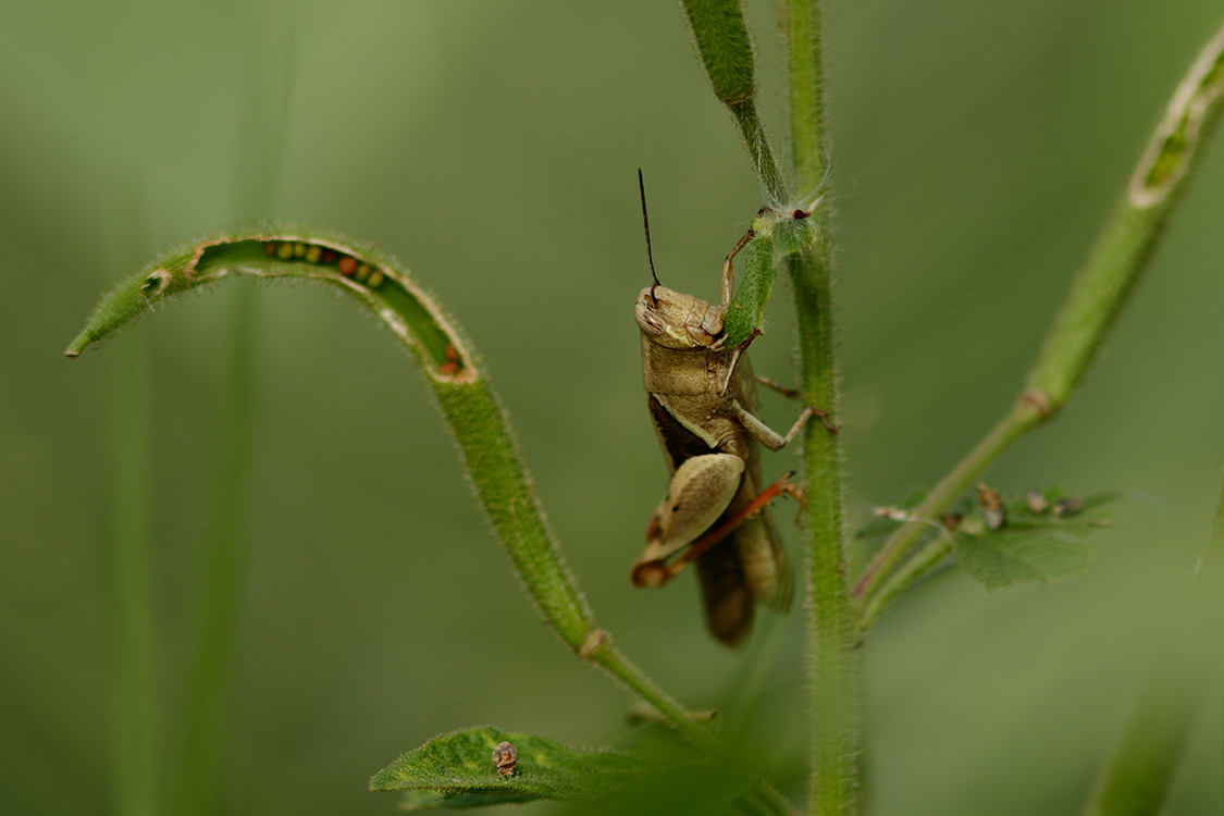 @Dwarka, New Delhi.